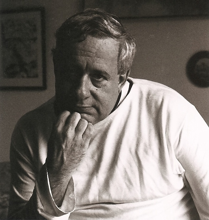 Alan Ansen in Athens, Greece, 14 October 1973